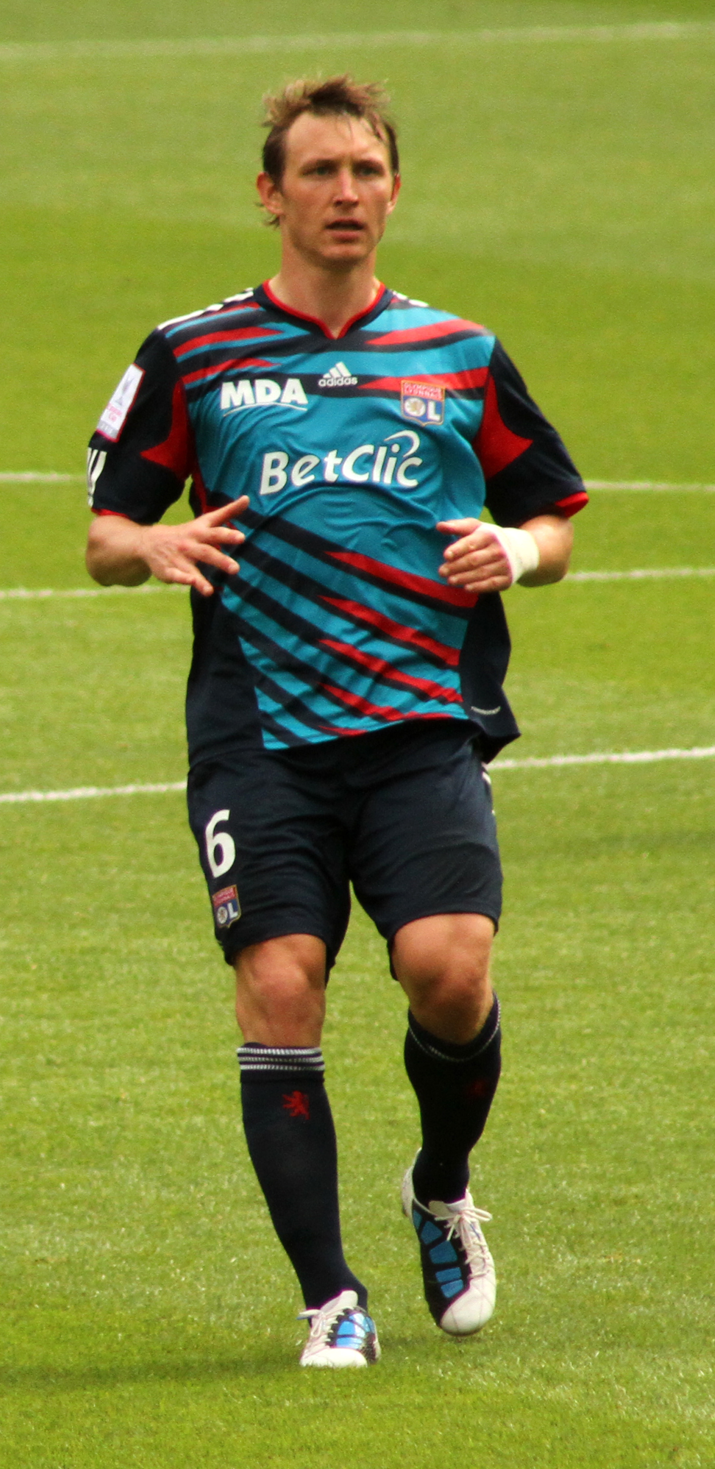 Swedish football player Kim Källström, while playing for Olympique lyonnais